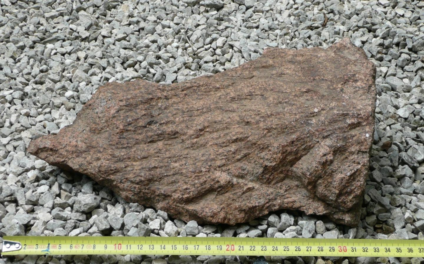 30 cm specimen of a shattercone in the Saint Gervais granite from the Rochechouart-Chassenon impact crater